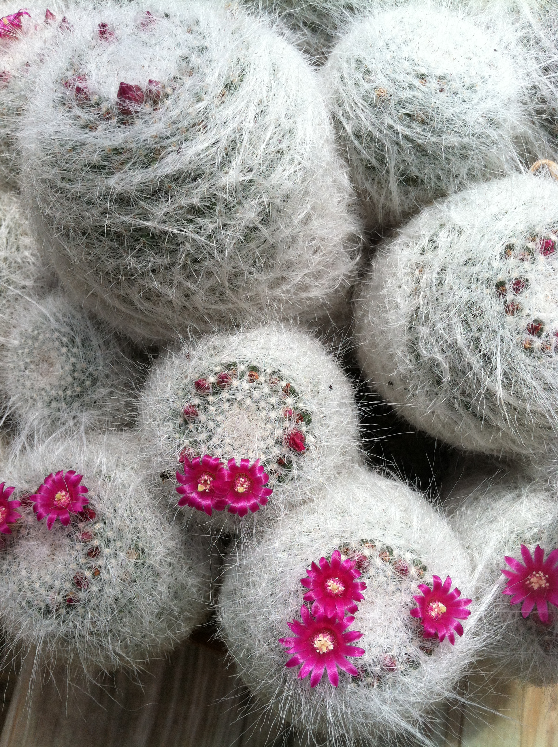 Mammillaria hahniana (but see the comments for discussion on the taxonomy). My acknowledgments to Dr. Ed Leuck at Centenary College of Louisiana, whom these specimens belong to.